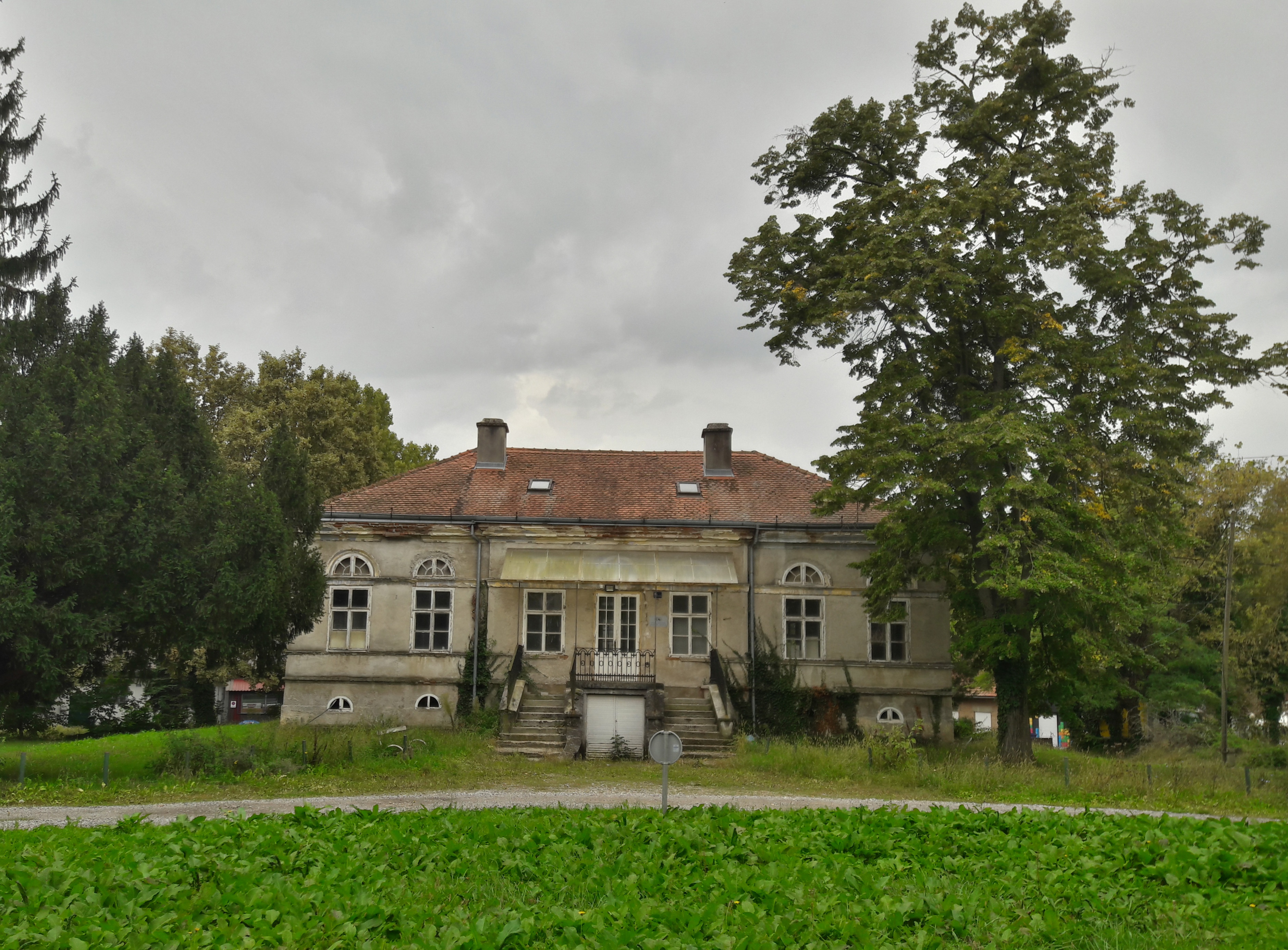 Bishop Haulik's Summer House in Maksimir Park